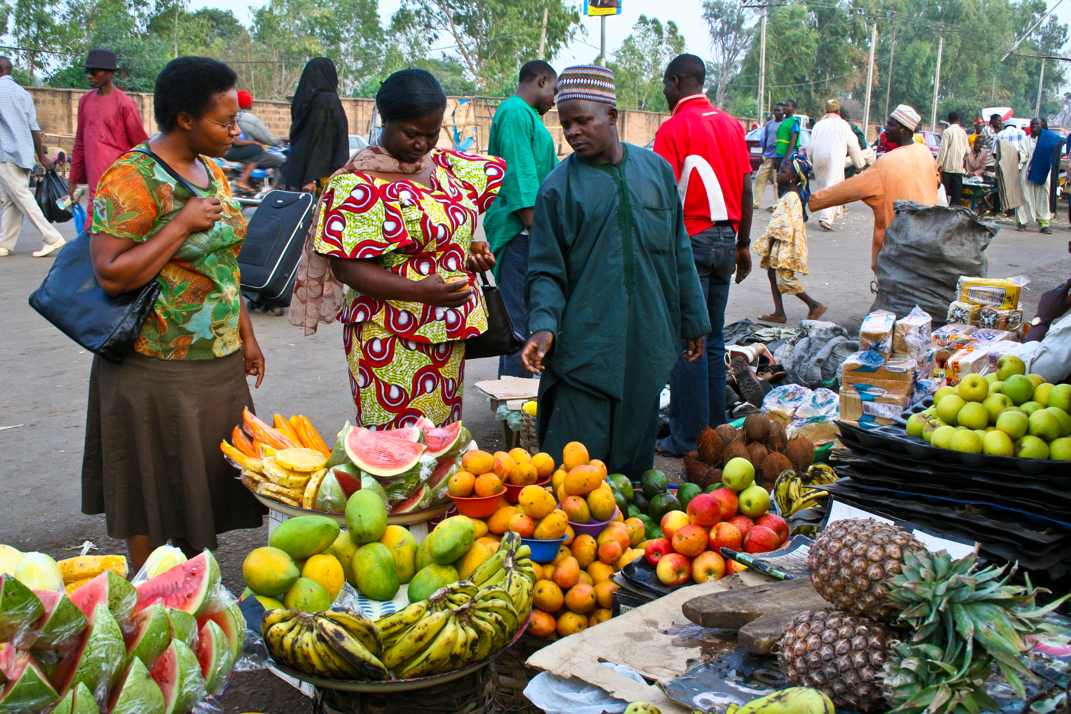 Jos. Fruit Stall Our host helps us make a selection of fruits at the 'Park' market